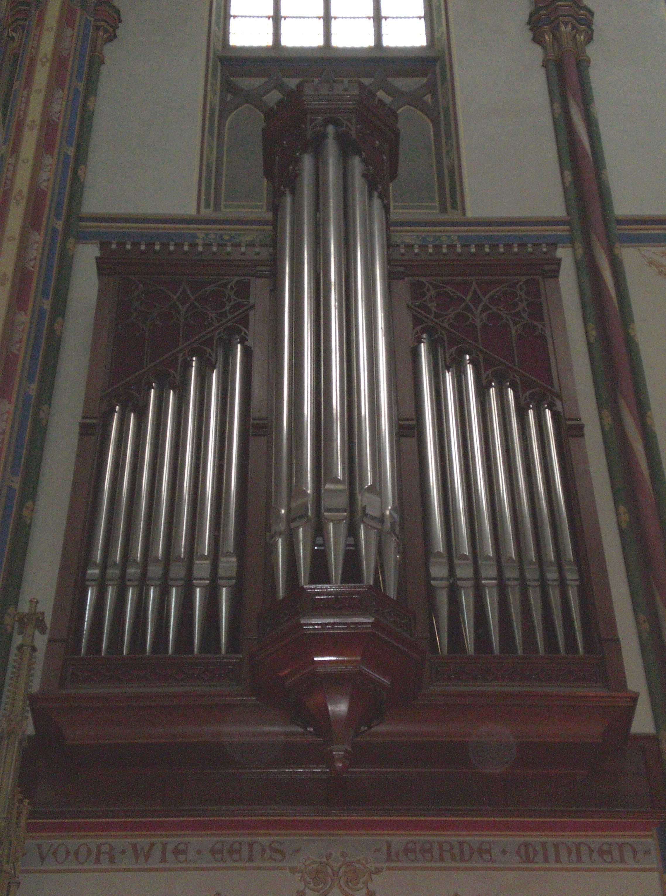 Jesuit Church "De Krijtberg" (Sint-Franciscus Xaveriuskerk), Singel 448, 1017 AV Amsterdam, --- Interior: Organ by P.J. Adema (1905), designed by Wilhlm Mengelberg.